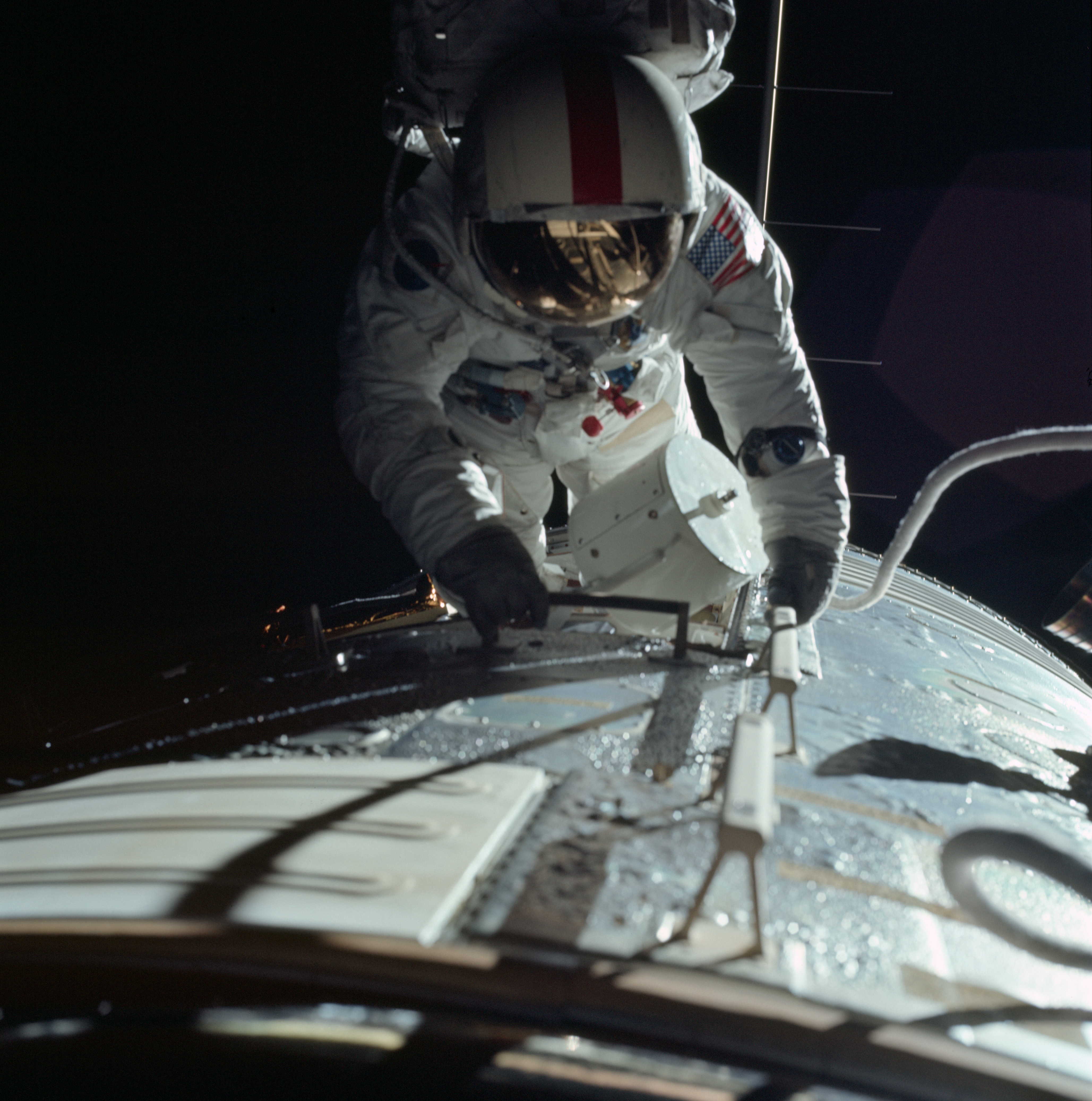 Astronaut Ronald E. Evans is photographed performing extravehicular activity during the Apollo 17 spacecraft's trans-Earth coast. During his EVA, command module pilot Evans retrieved film cassettes from the Lunar Sounder, Mapping Camera, and Panoramic Camera. The cylindrical object at Evans' left side is the Mapping Camera cassette. The total time for the trans-Earth EVA was one hour seven minutes 18 seconds, starting at ground elapsed time of 257:25 (2:28 p.m.) and ending at ground elapsed timed of 258:42 (3:35 p.m.) on Sunday, Dec. 17, 1972.